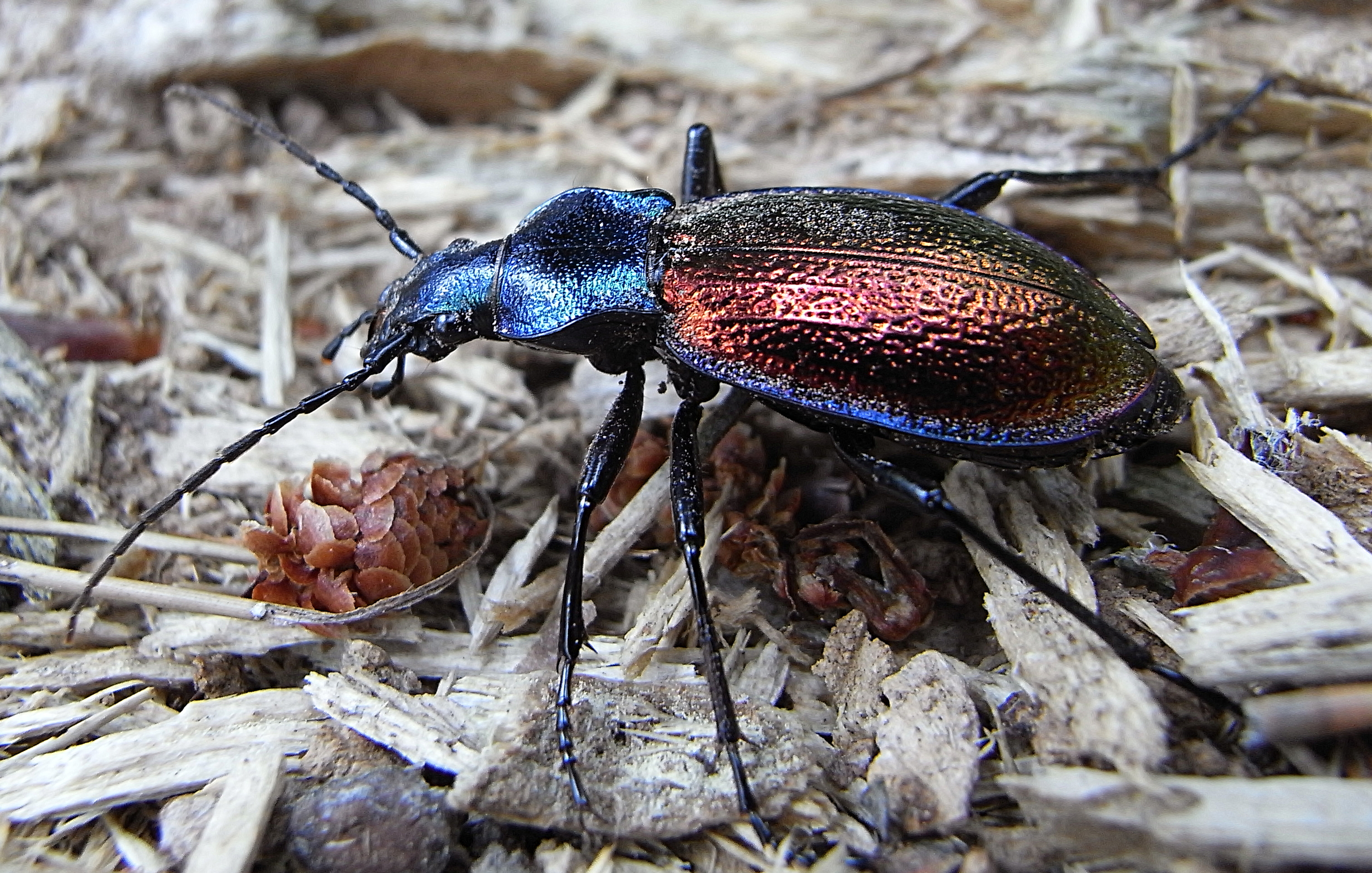 Carabus hispanus Ricoh R8